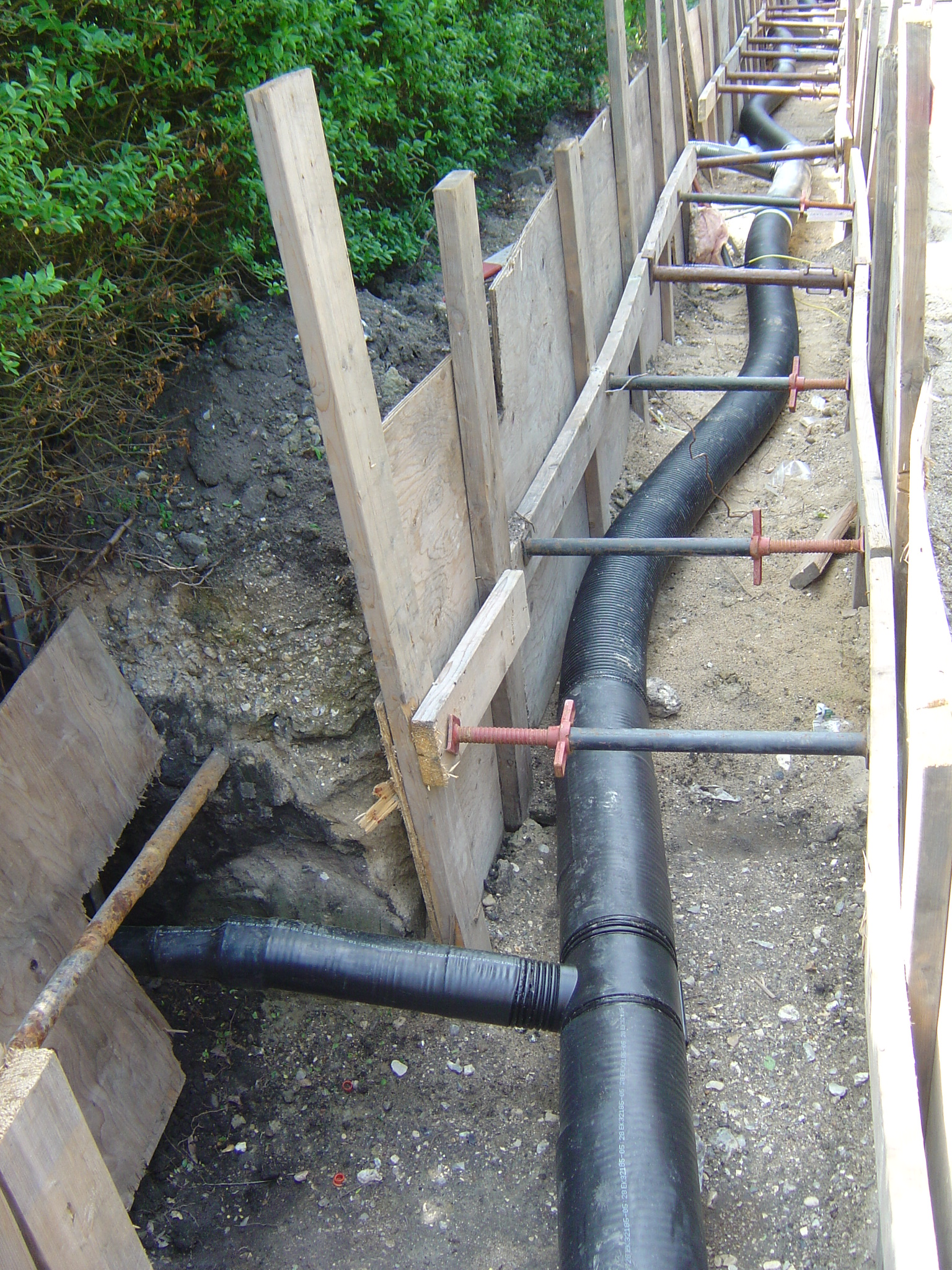 Heating pipe being established in a horticultural society on Amager, Copenhagen.